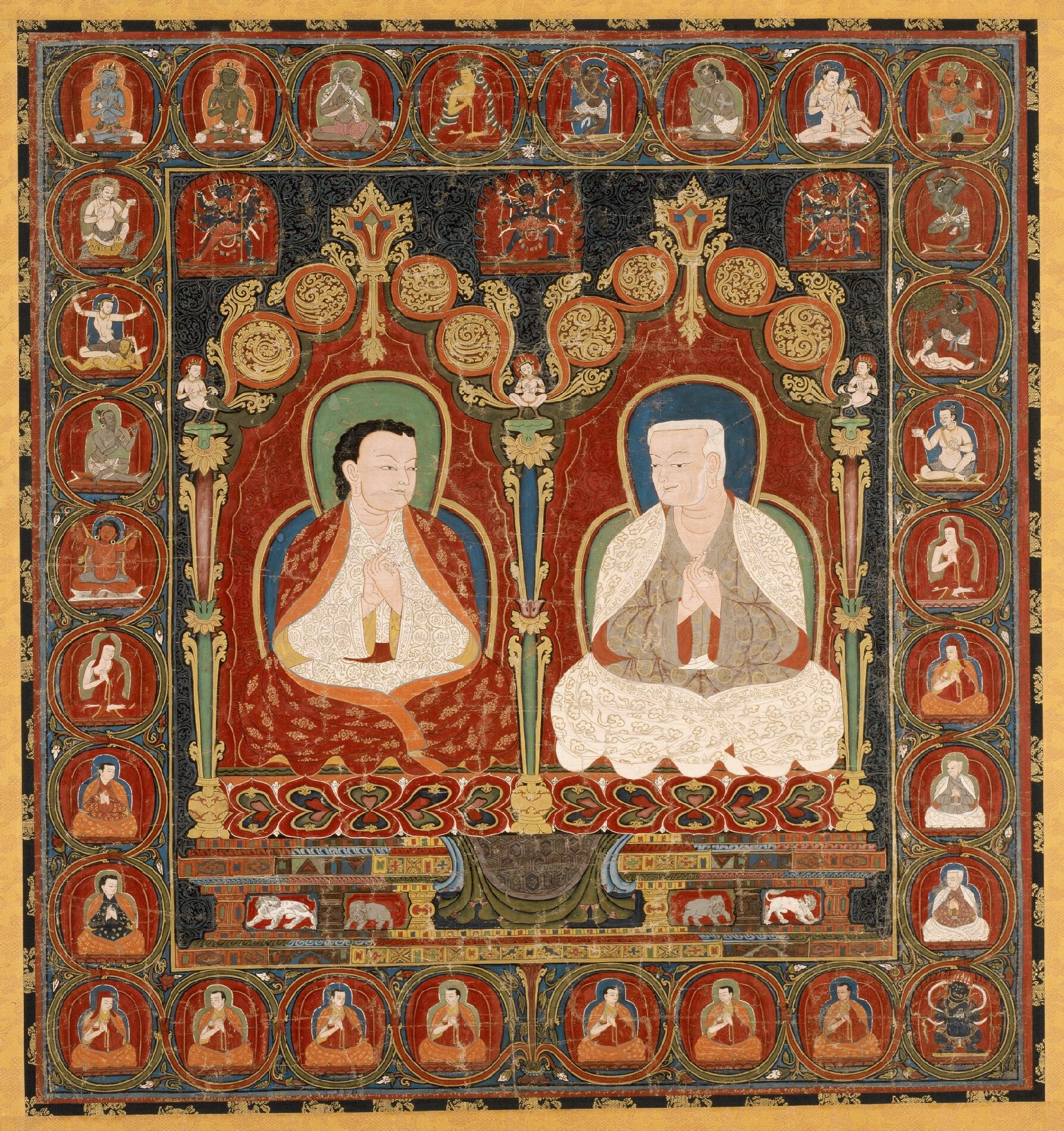 Teacher (Lama) - Sonam Tsemo, 15th century, Boston MFA